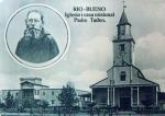 Iglesia Misional Río Bueno Padre Tadeo de Wiesent